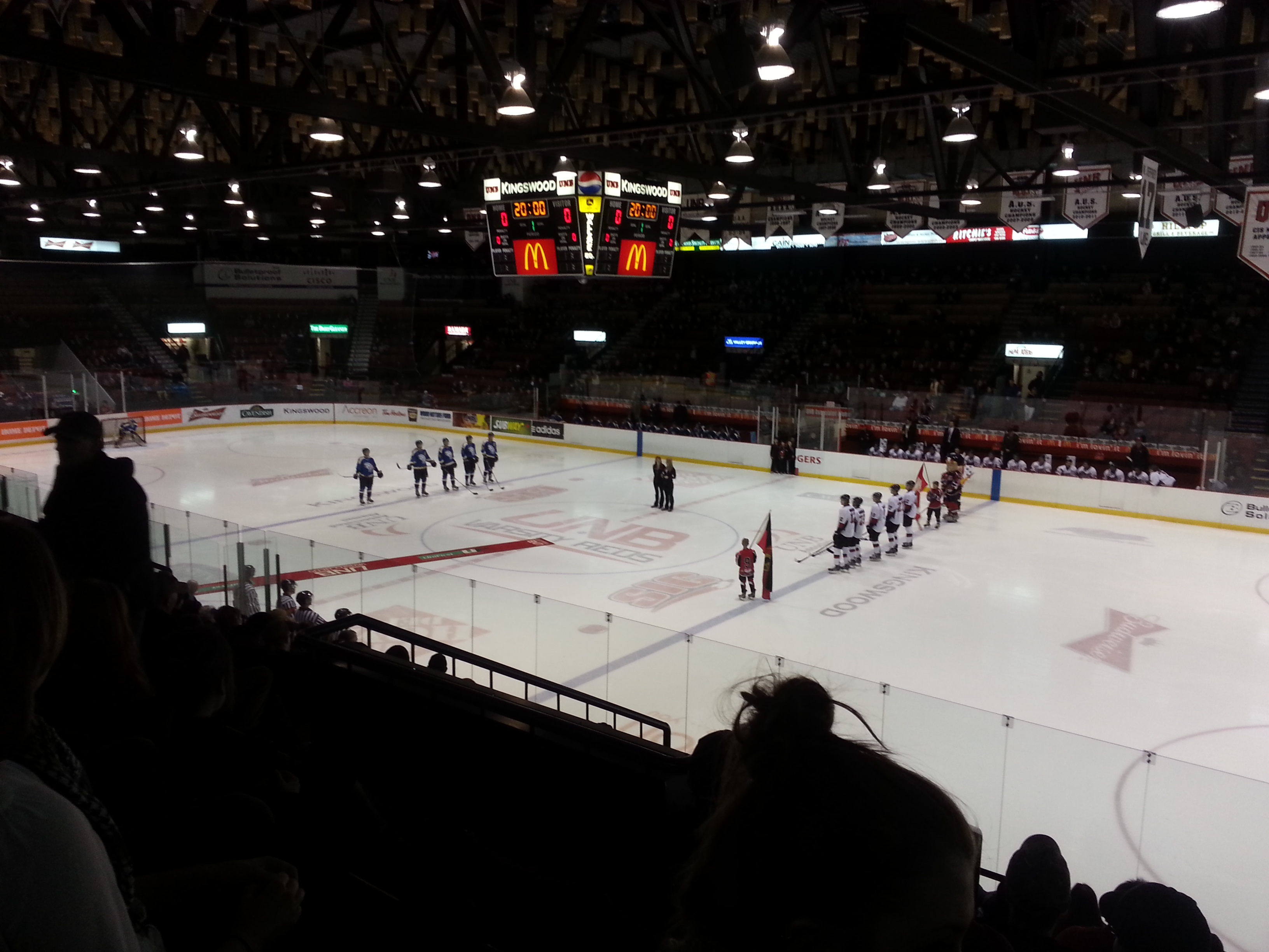 Interior of the Aitken Center located on the campus of the University of New Brunswick in Fredericton, Canada.